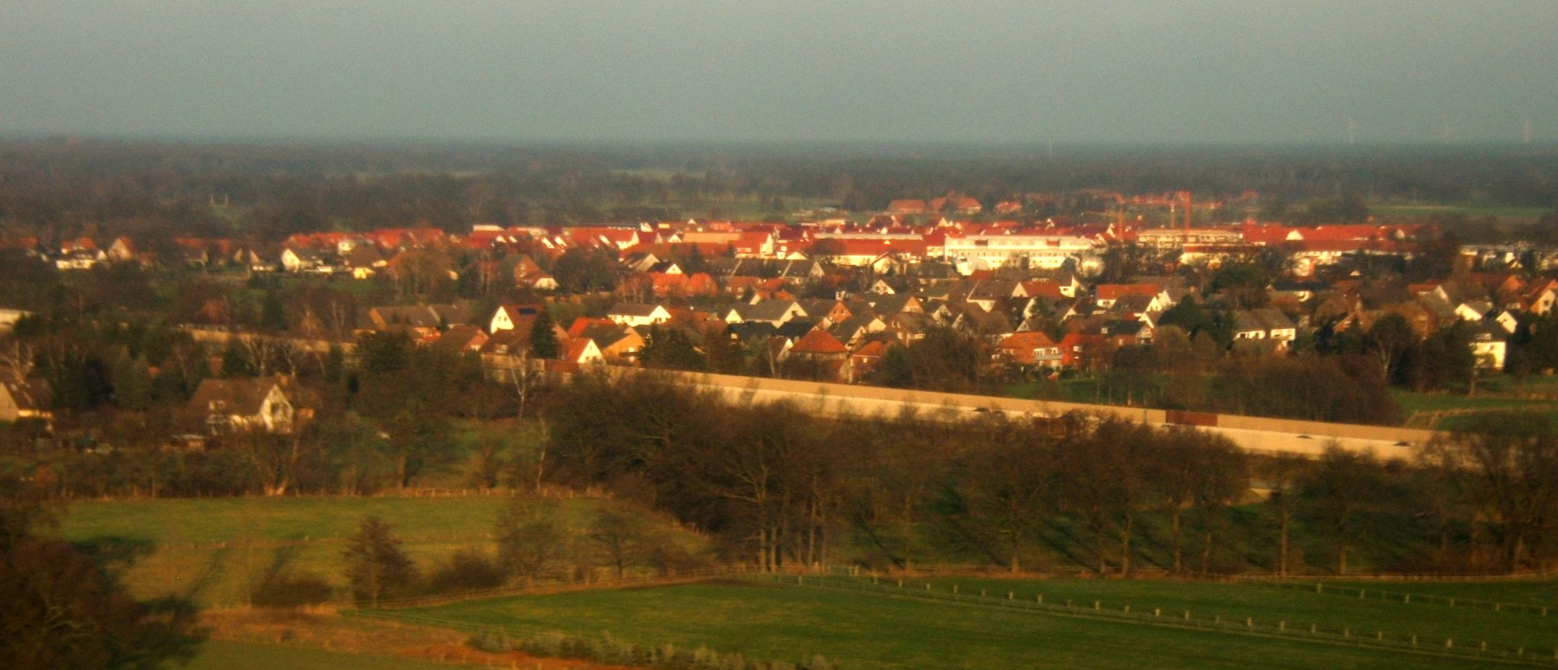 Aerial view (while landing at Hannover Airport) of Kaltenweide (part of Langenhagen)